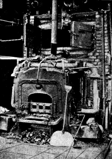 Lancashirehärd.